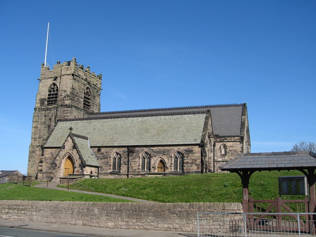 Photograph